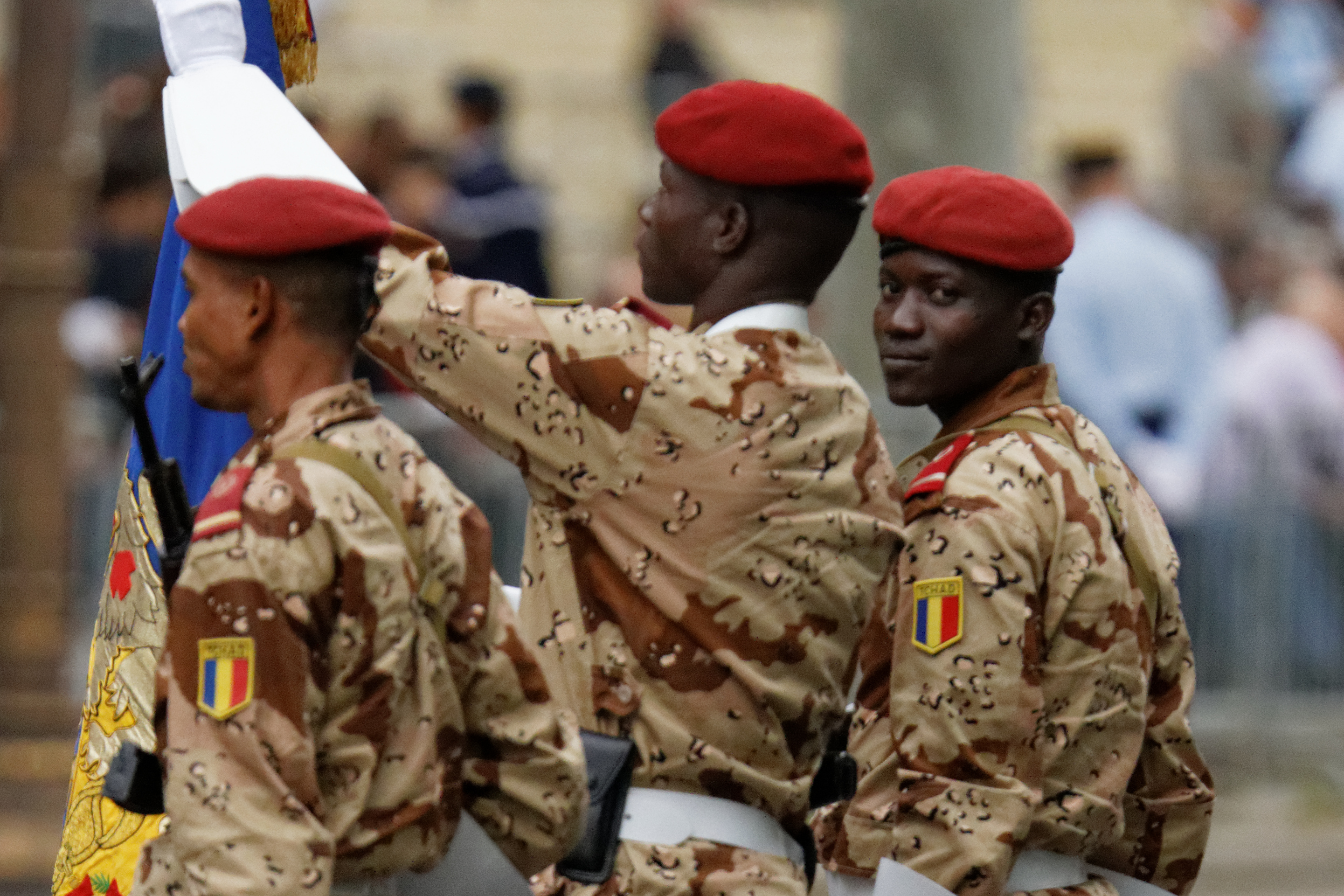 Bastille Day 2014 military parade on the Champs-Élysées in Paris. Color guards.